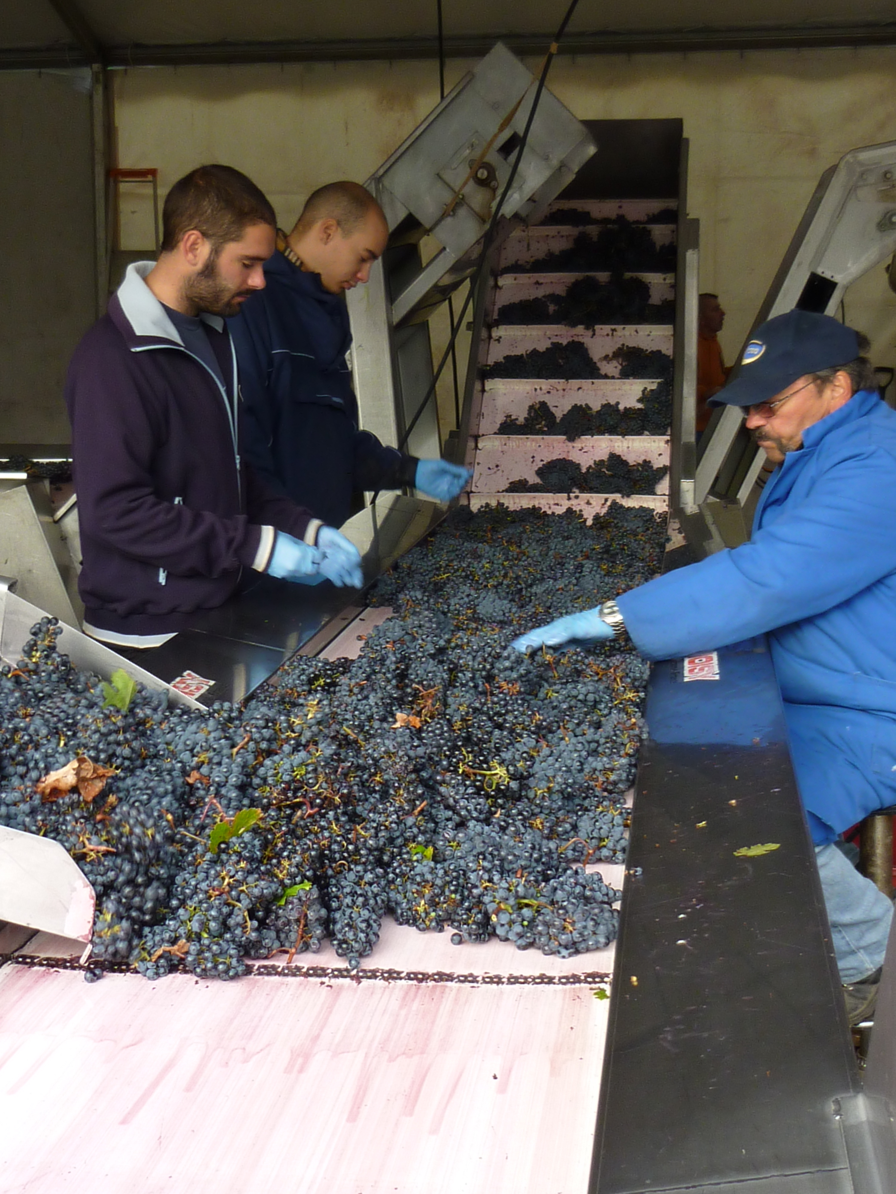 Sorting freshly harvested grapes to remove bad bunches and MOG (material other than grapes) such as leaves, bugs, etc.